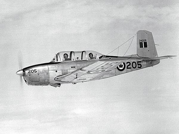 RCAF Courses 5409, 5411 lfew T-34 as experimental replacement for Harvard 1954